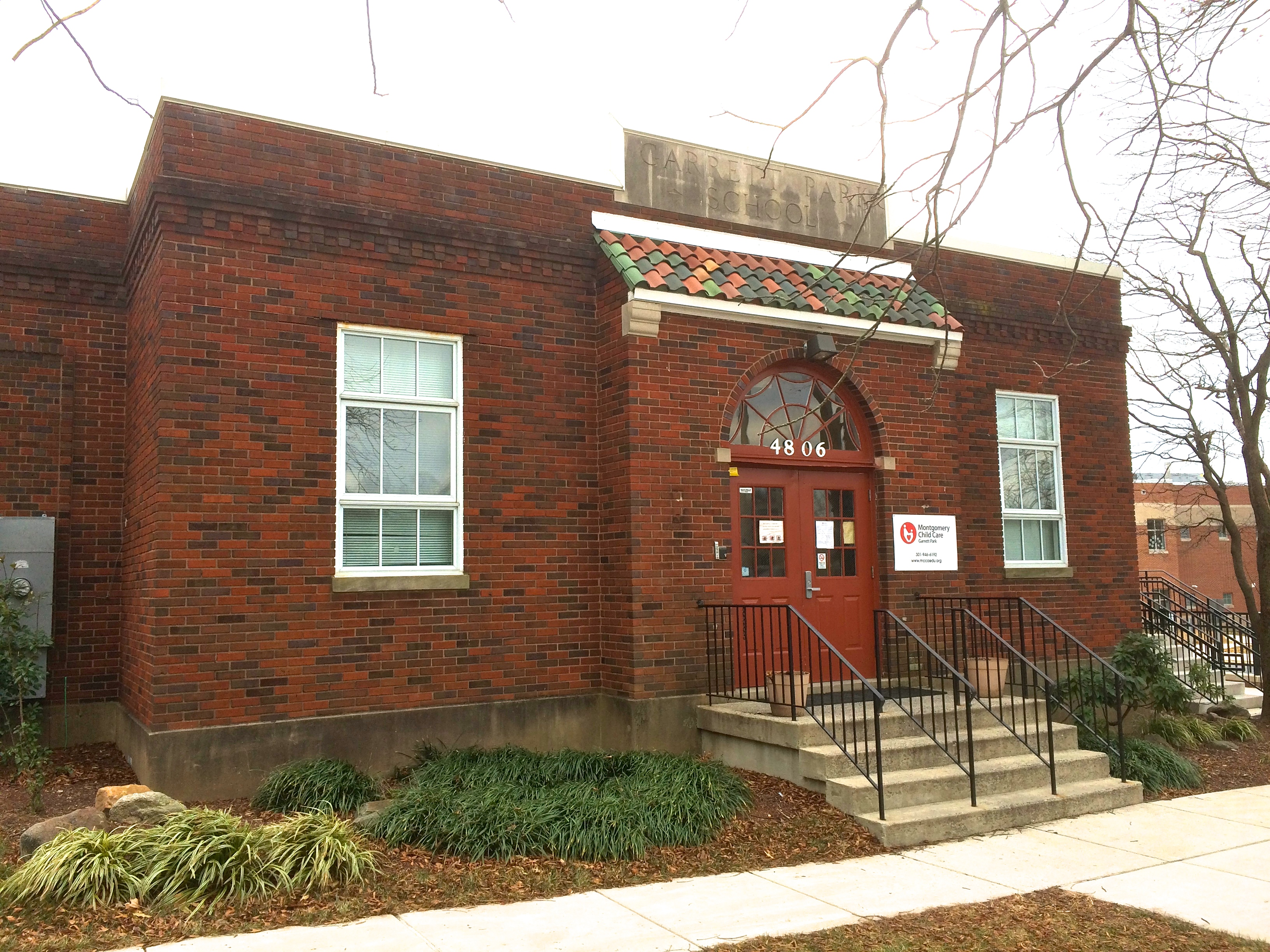 Original Garrett Park School, Garrett Park, Maryland. Opened in 1928 and used as a school until the 1950s. Designed by Howard Wright Cutler.